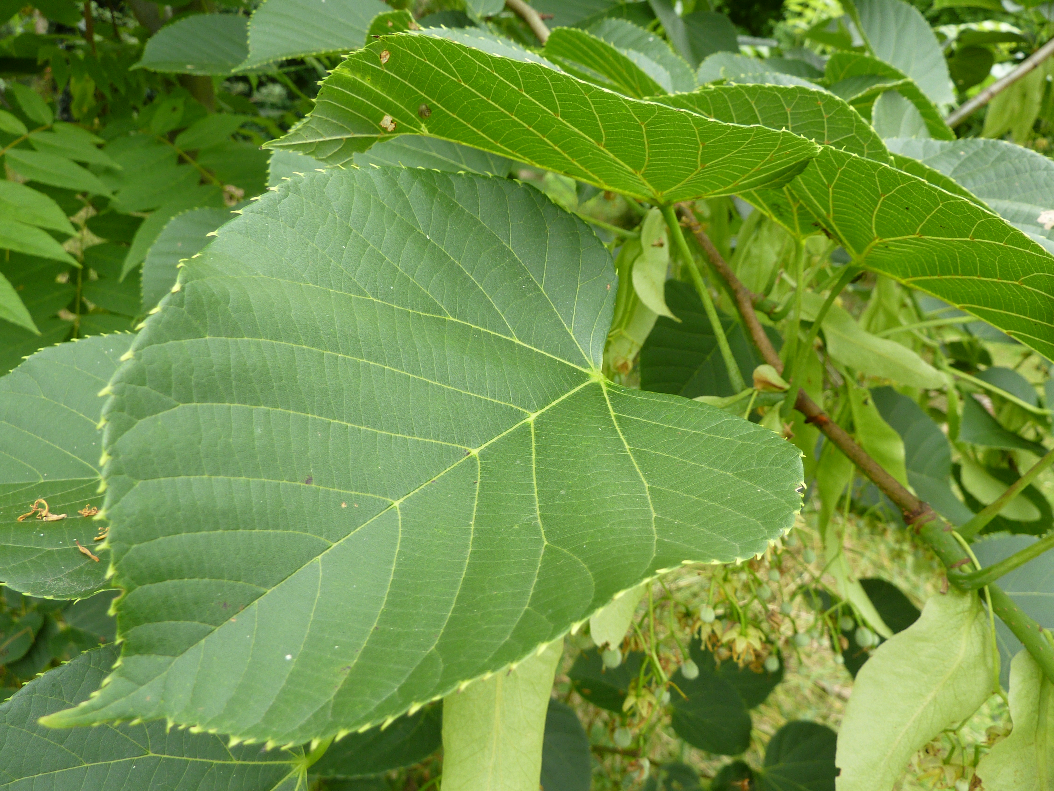 Tilia nobilis, Cambridge University Botanic Garden